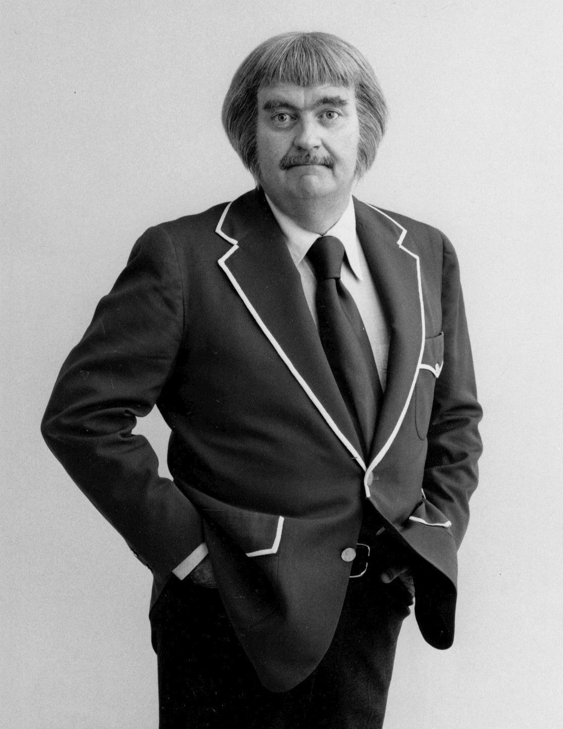 Publicity photo of Bob Keeshan as Captain Kangaroo.